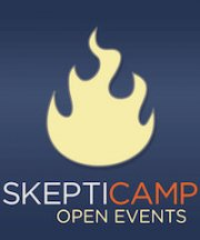 Skepticamp Open Events Banner